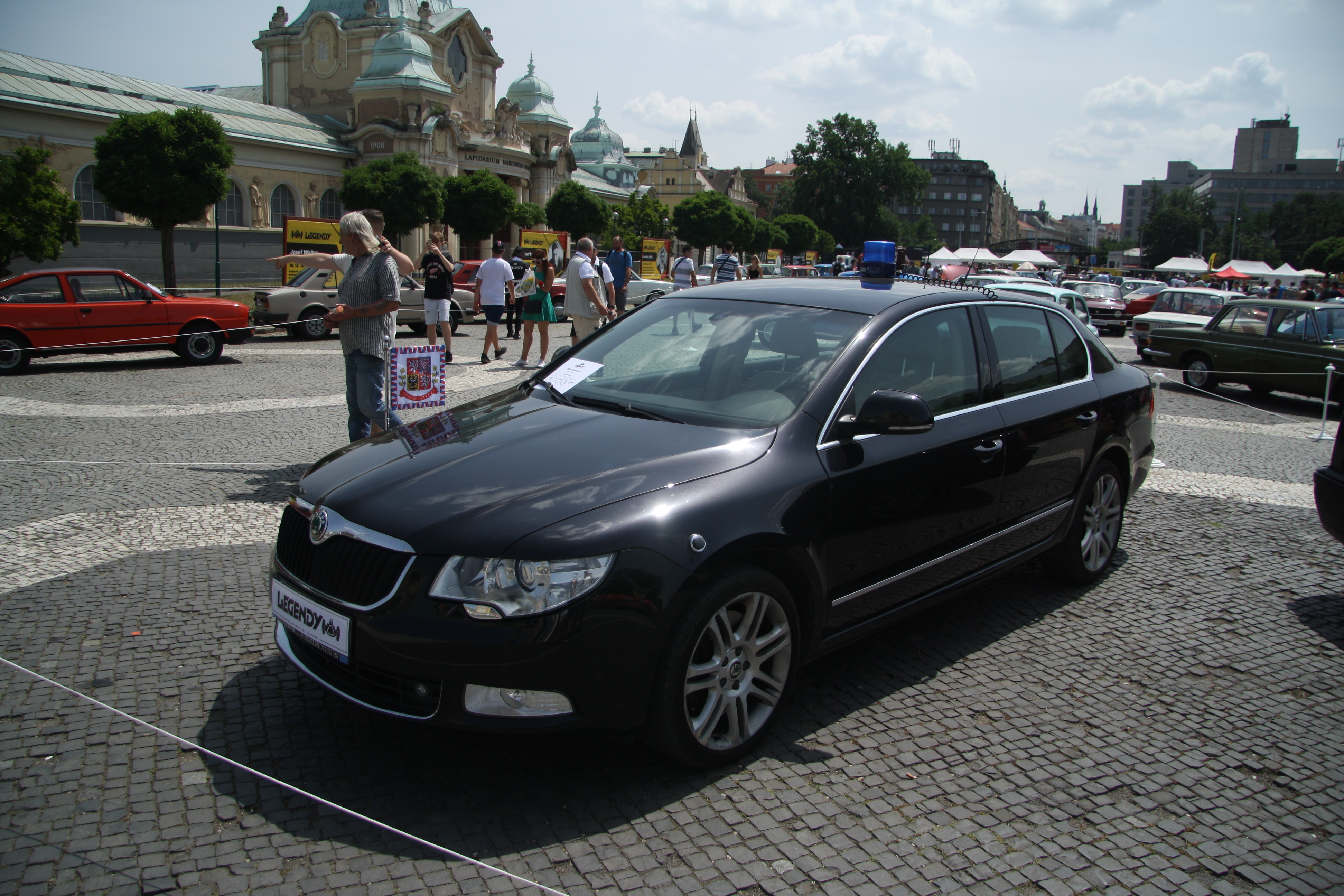 Czech President car Škoda Superb at Legendy 2018 in Prague.